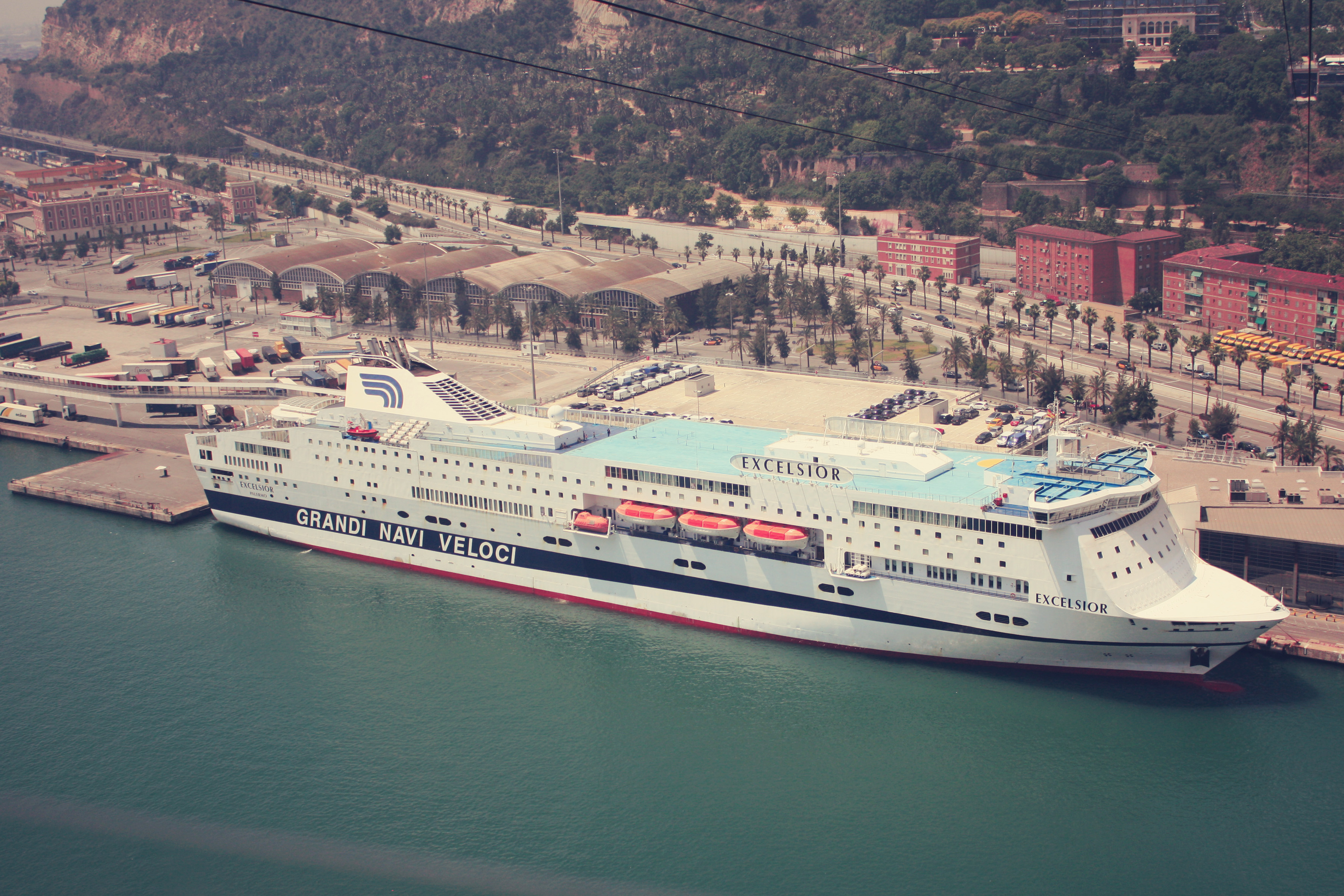 Ship EXCELSIOR of Grandi Navi Veloci. IMO Number: 9184419 MMSI Number: 247401000 Callsign: IBEX Length: 202 m Beam: 28 m